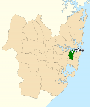 Incorporates or developed using Administrative Boundaries ©PSMA Australia Limited licensed by the Commonwealth of Australia under Creative Commons Attribution 4.0 International licence (CC BY 4.0). Derived from State and Territory Boundaries from the Australian Bureau of Statistics under Creative Commons Attribution 2.5 Australia license (CC BY 2.5 AU)